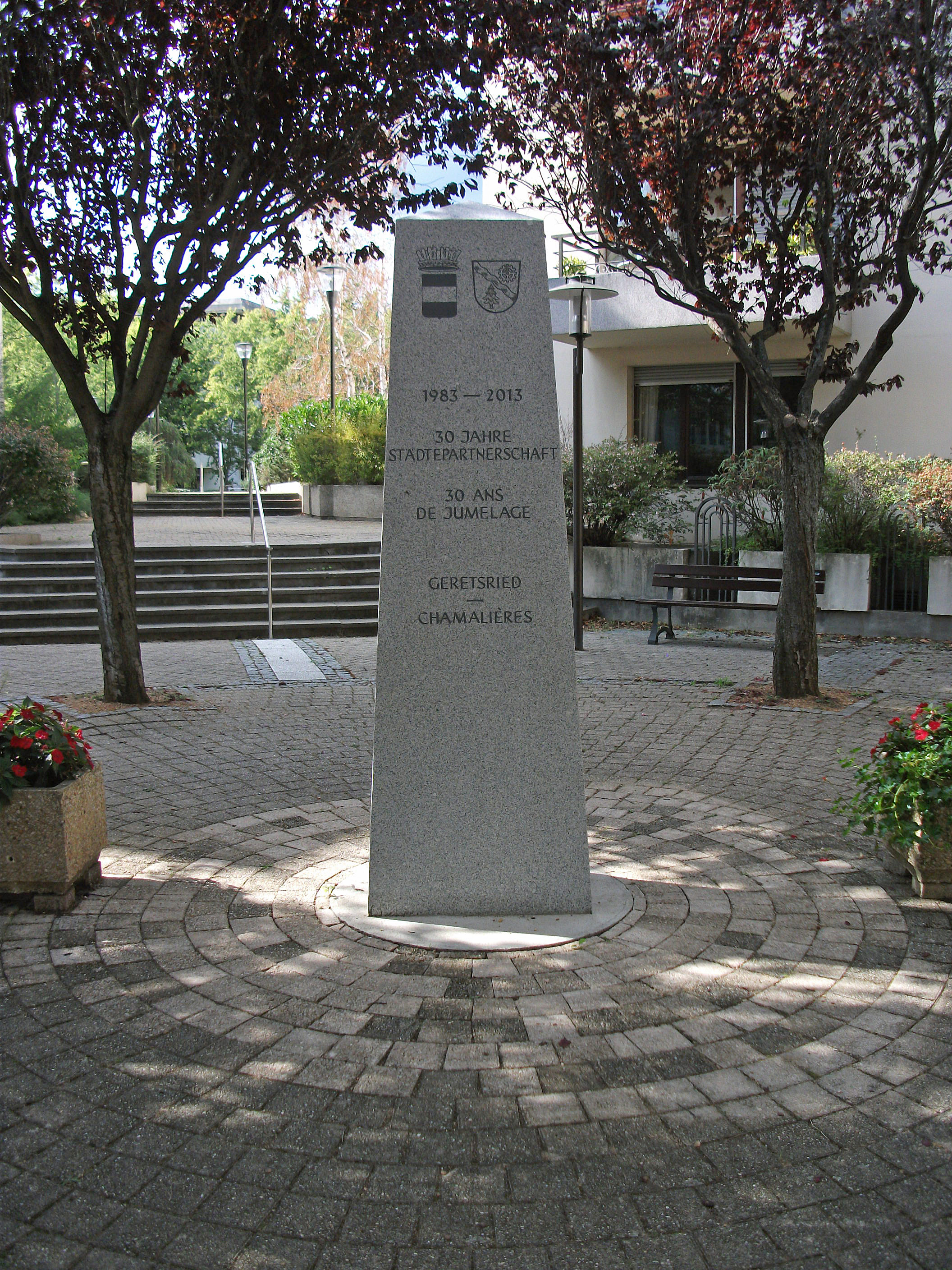 Stele of 30 years of twin cities Chamalières and Geretsried (1983–2013) face [9108]